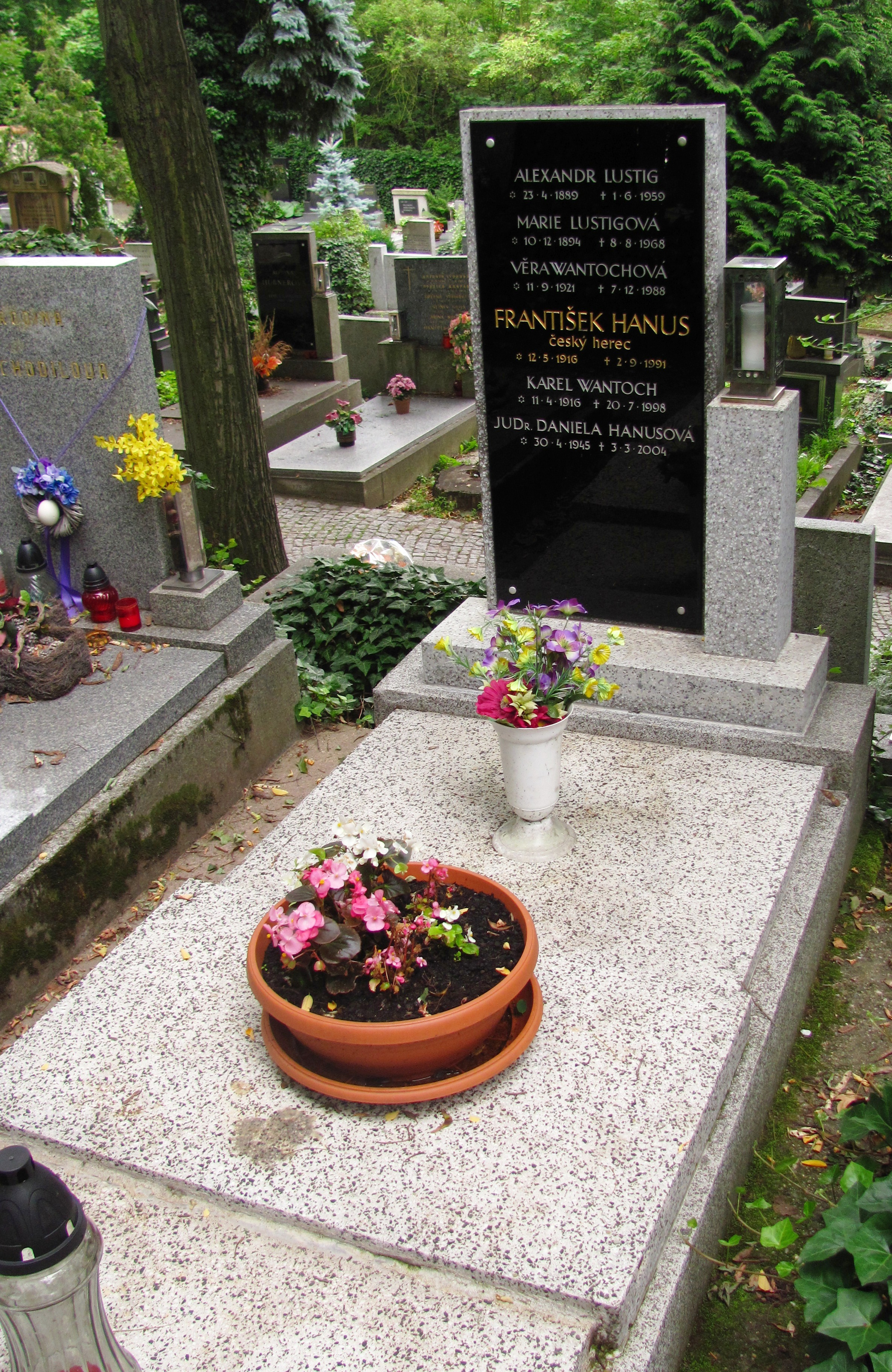 Tomb of František Hanus, Czech actor (Šárka Cemetery, Prague)